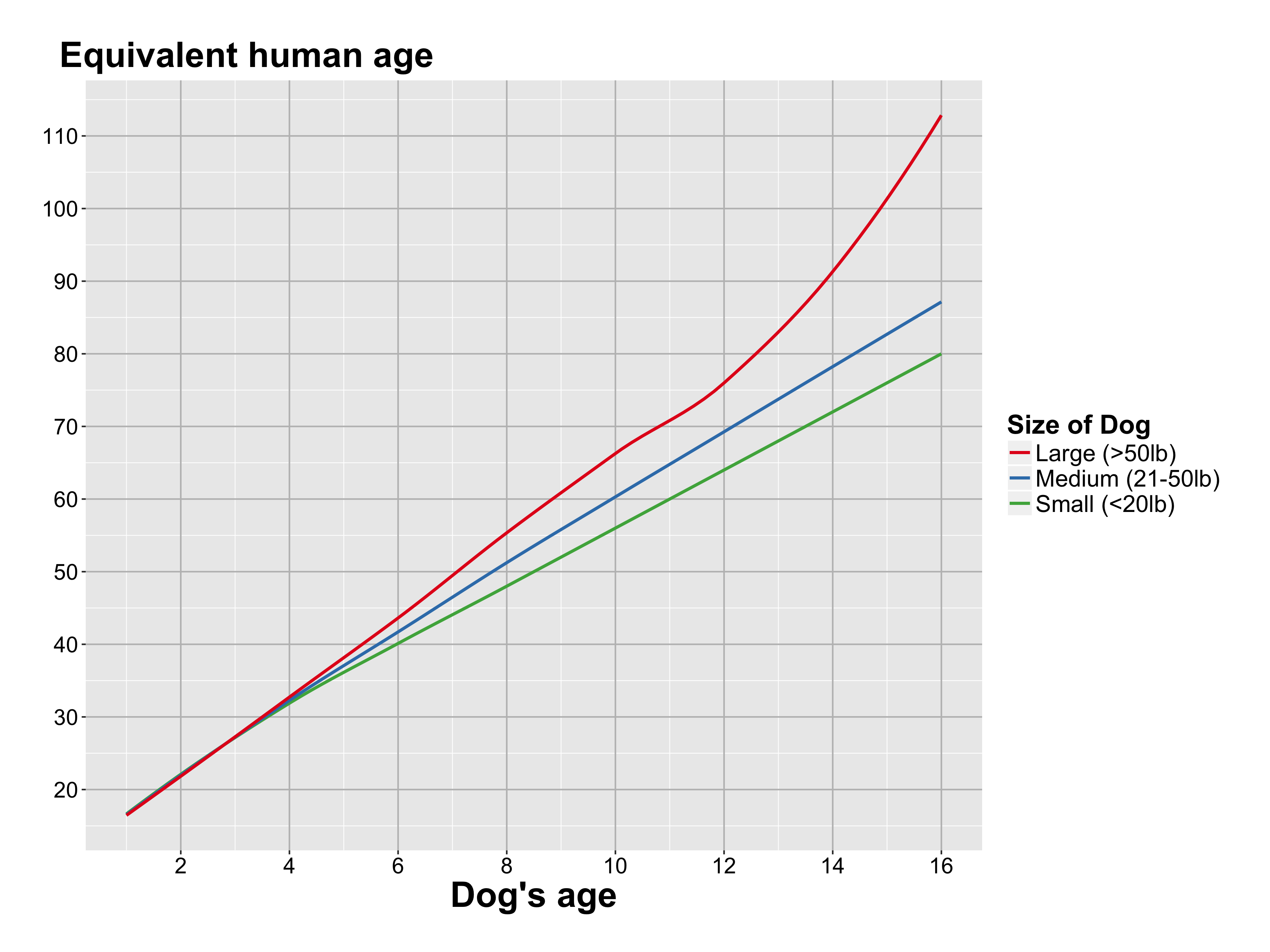 Graph of dog age versus equivalent human age, grouped by dog size